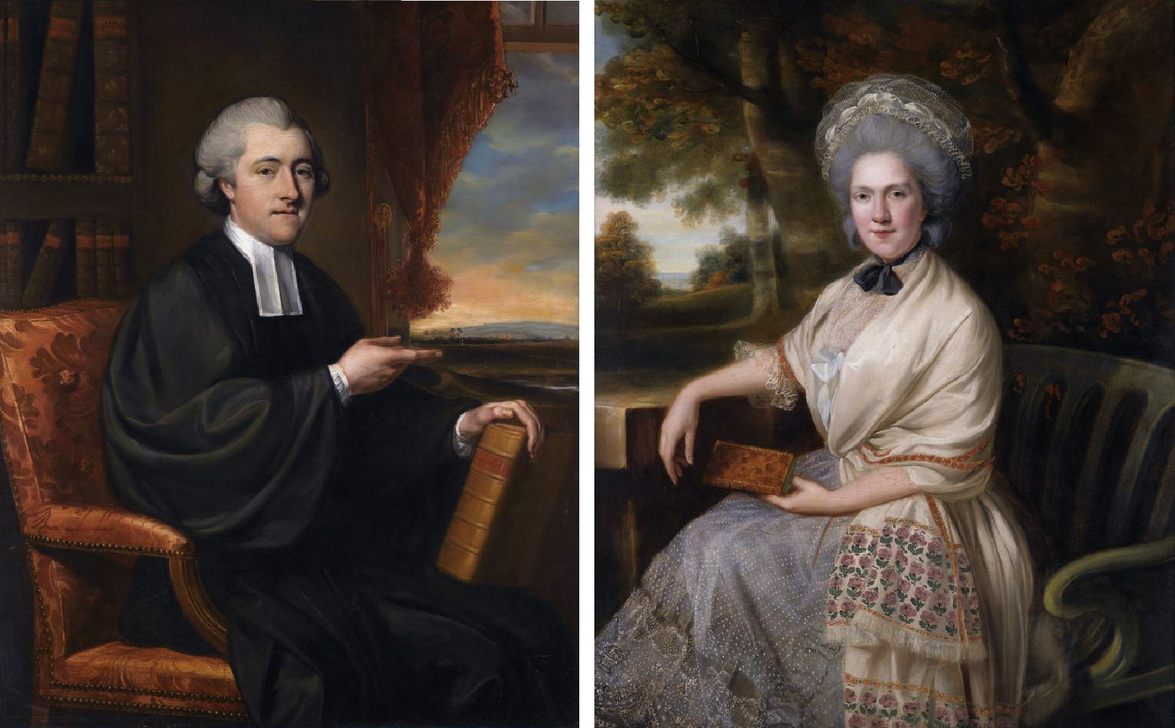 Henry Peckwell (1746-1787) and his wife Isabella Blosset (d 1816) oil on canvas 125.5 x 100 cm each signed c.l. on her portrait: J.R.